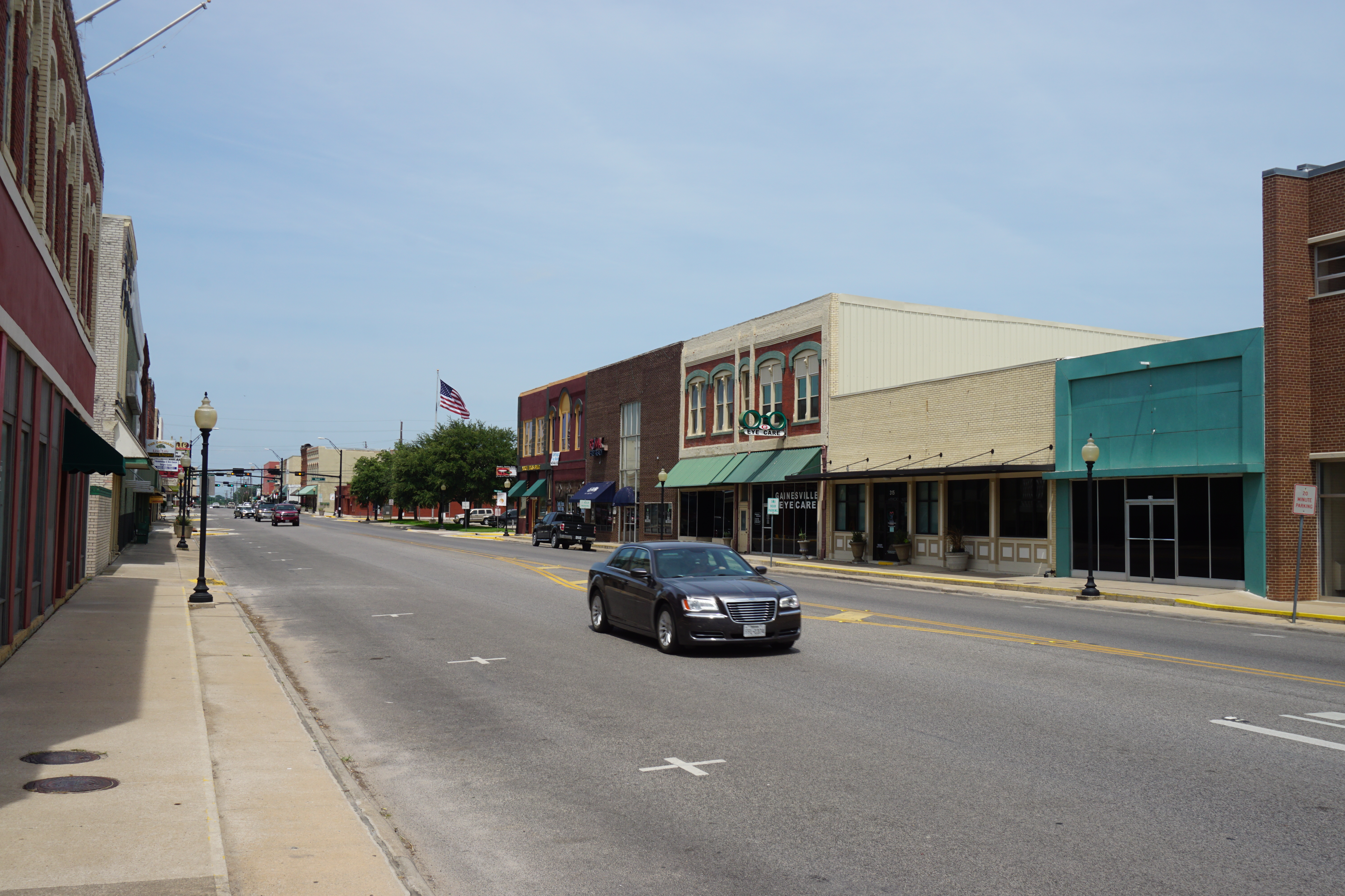 East California Street in Gainesville, Texas (United States).